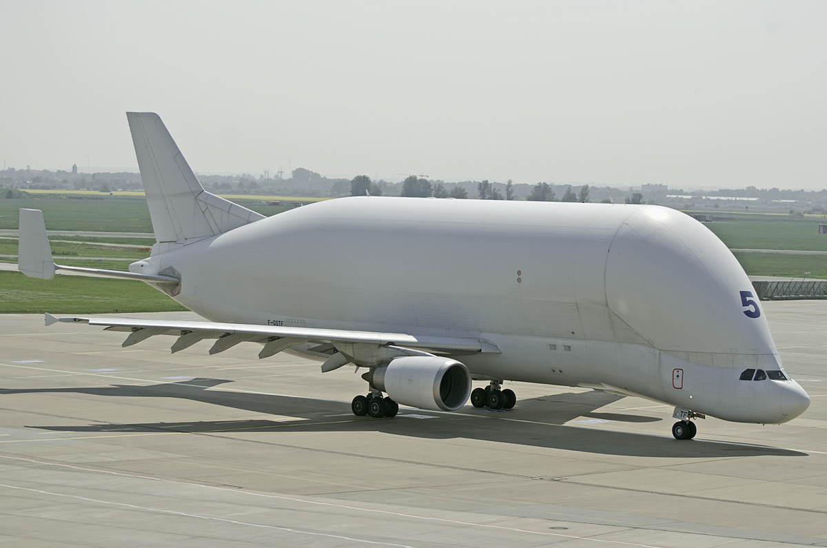 Airbus Industrie Airbus A300B4-608ST F-GSTF